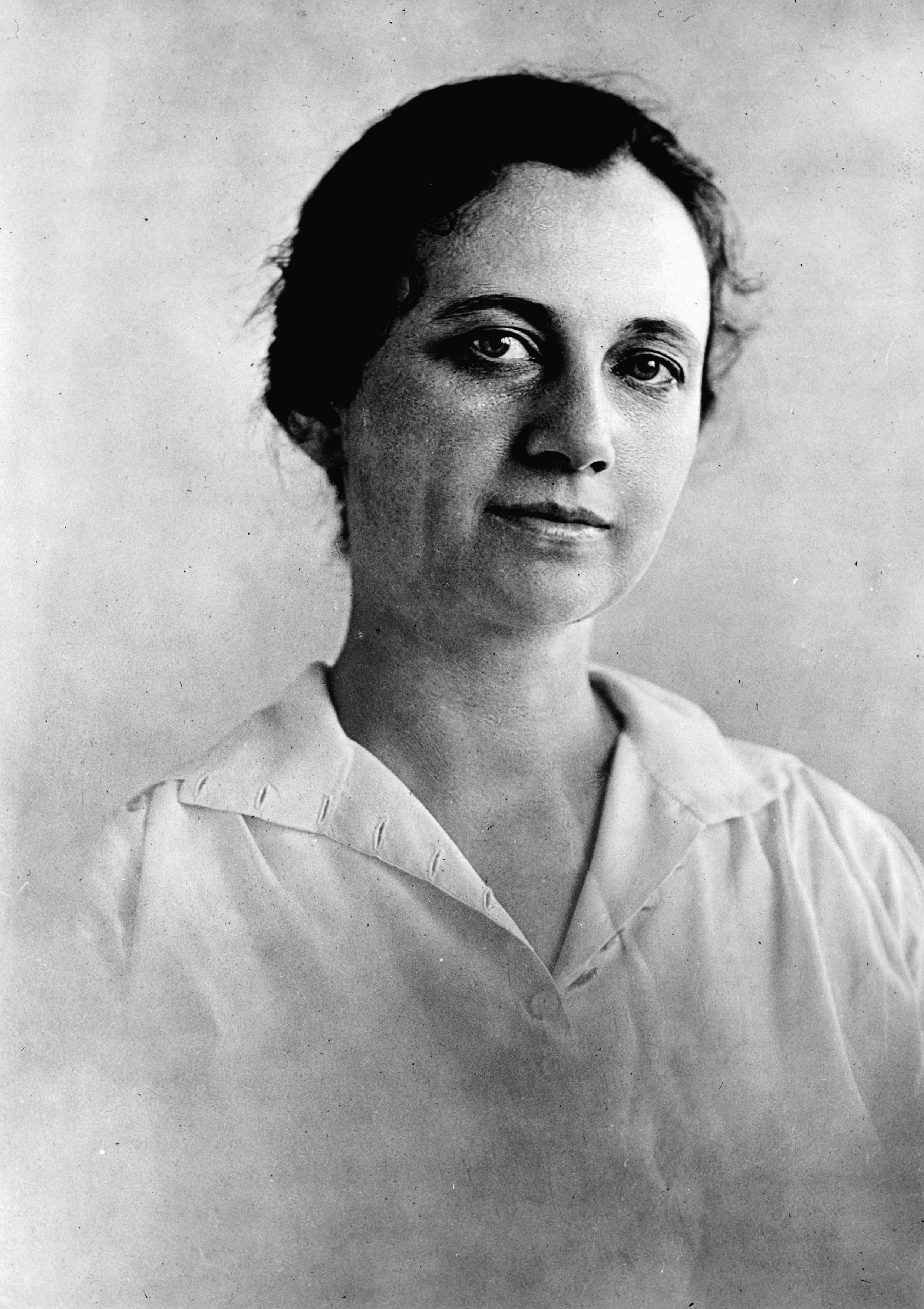 Winnifred Sprague Mason Huck (1882–1936), American journalist and politician